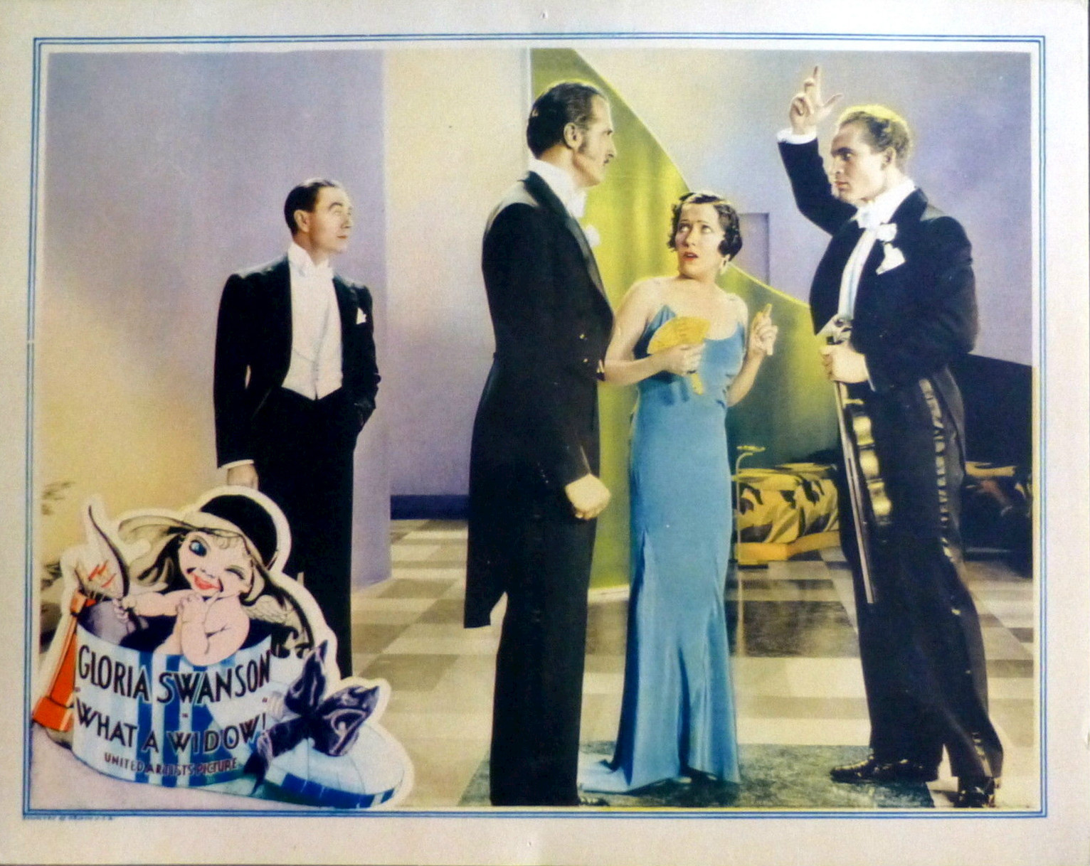 Lobby card for the American pre-Code romantic comedy film What a Widow! (1930) with Lew Cody, Gregory Gaye, Owen Moore, and Gloria Swanson. There are no copyright marks on the item. At bottom left is Country of origin USA.